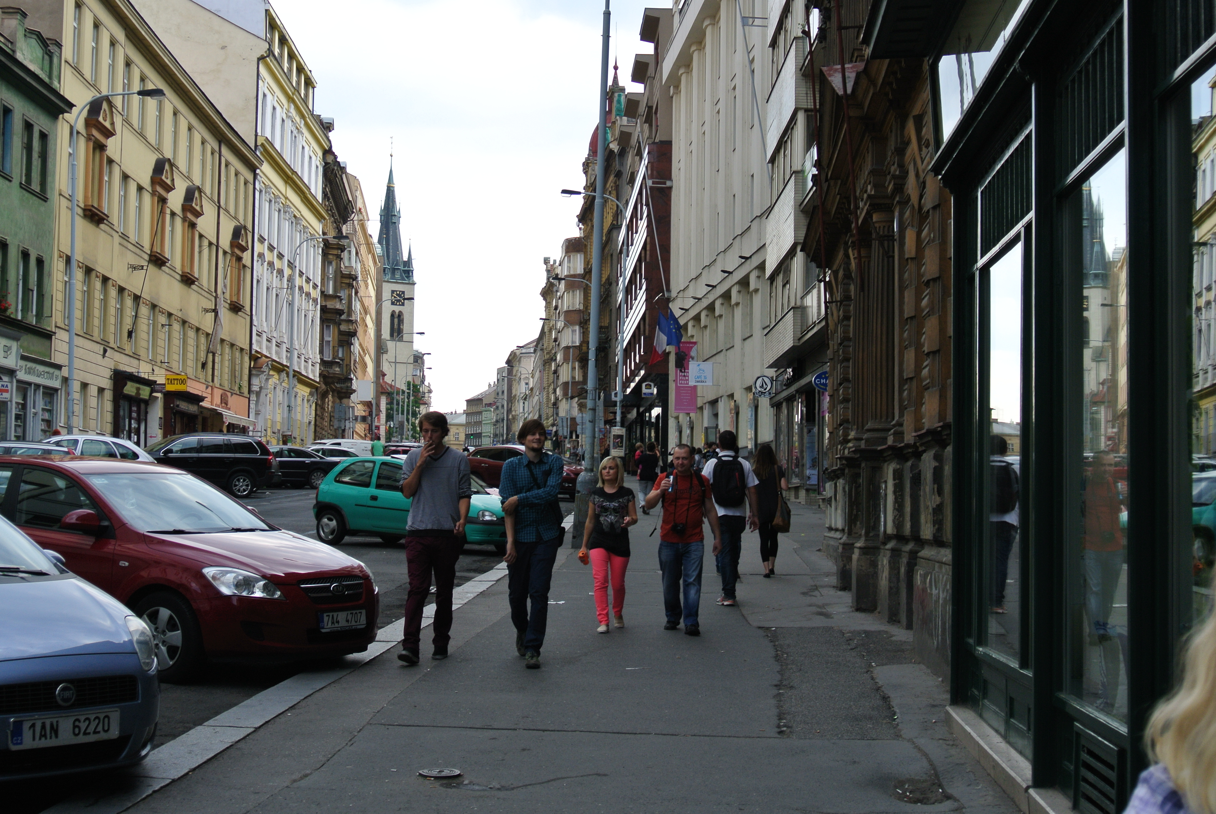 Fresh Film Fest - Francouzský institut